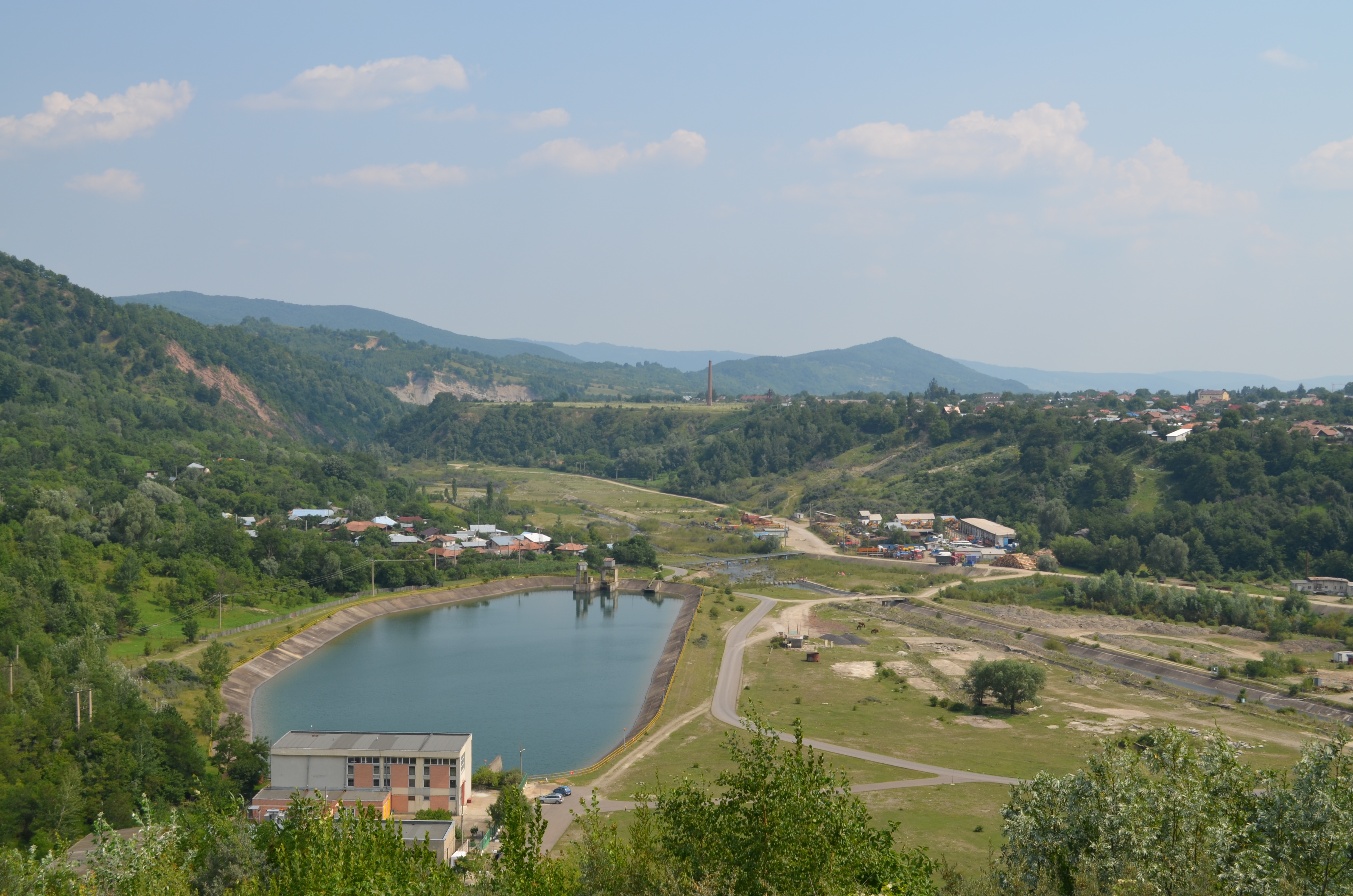 The hydroelectric power station and the evacuation lake, at Măneciu, Prahova, Romania (seen from the dam)To the left: Chiciureni village; Top-right: part of Măneciu